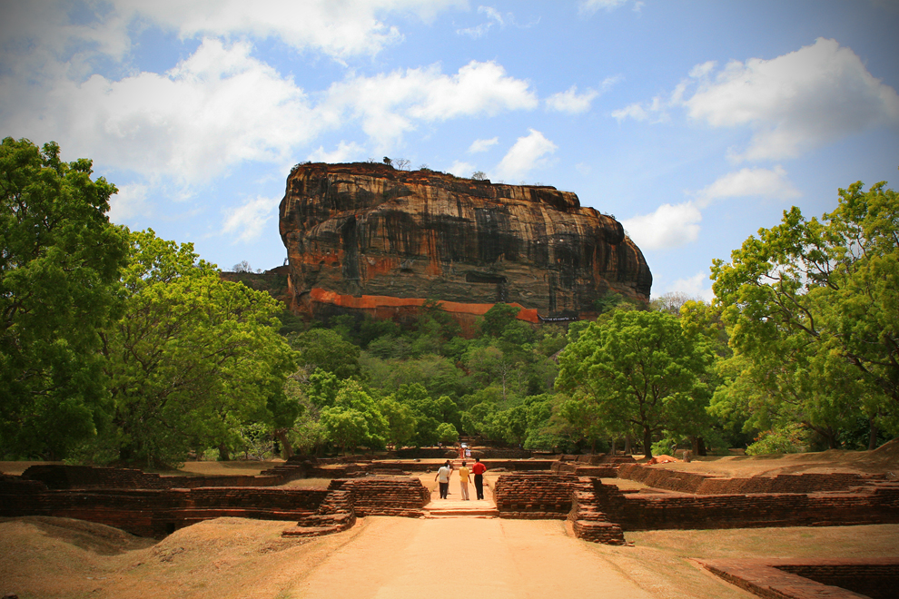 Sigiriya